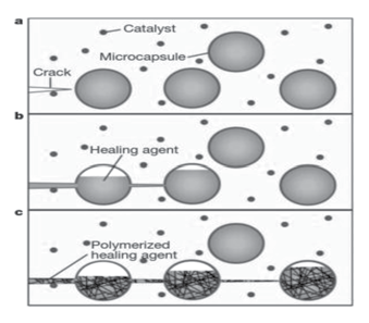 شکل 3) اصلاح خود به خودی با کمک میکرو کپسولها